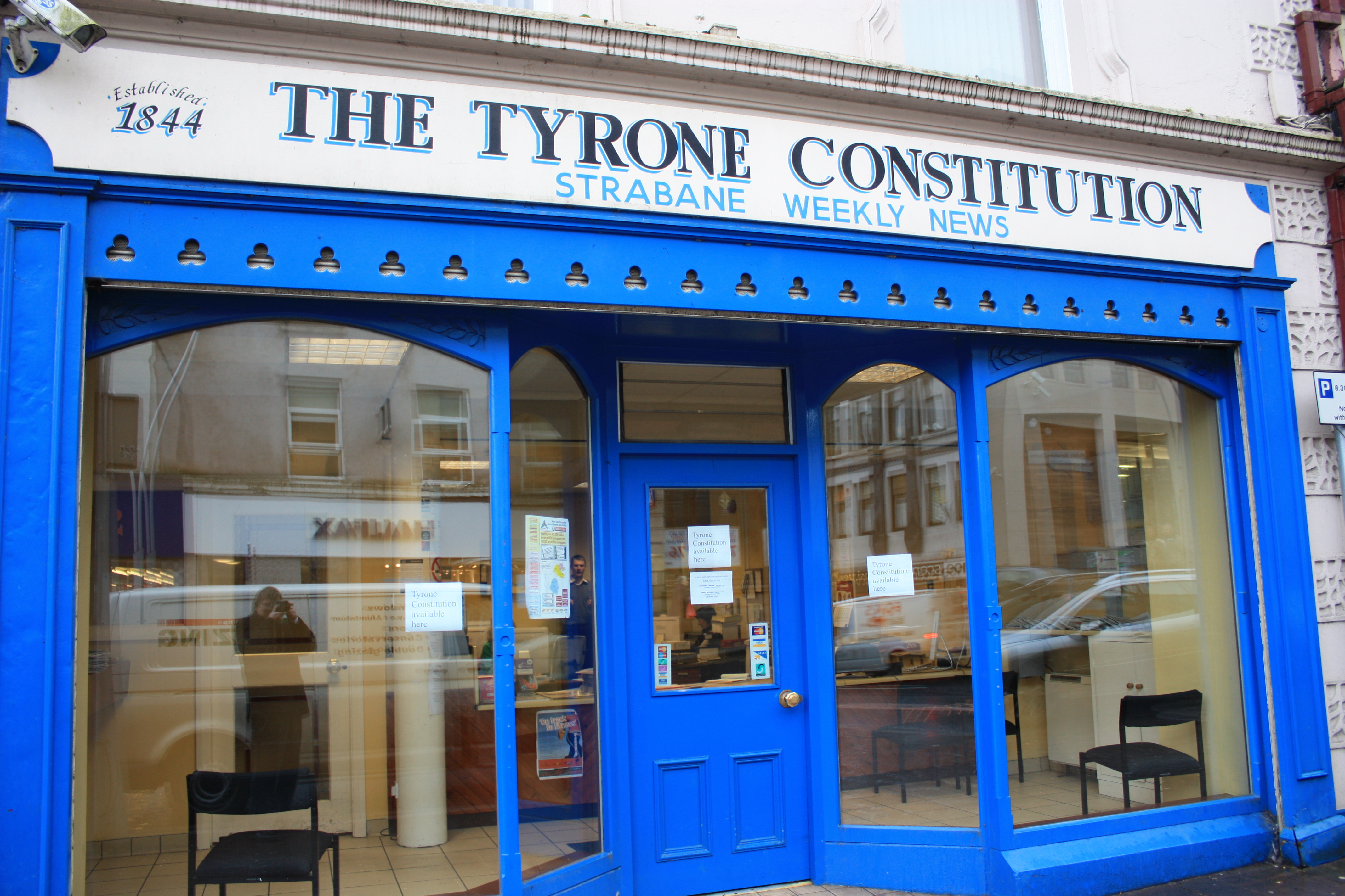 Tyrone Constitution newspaper office, High Street, Omagh, County Tyrone, Northern Ireland, January 2010